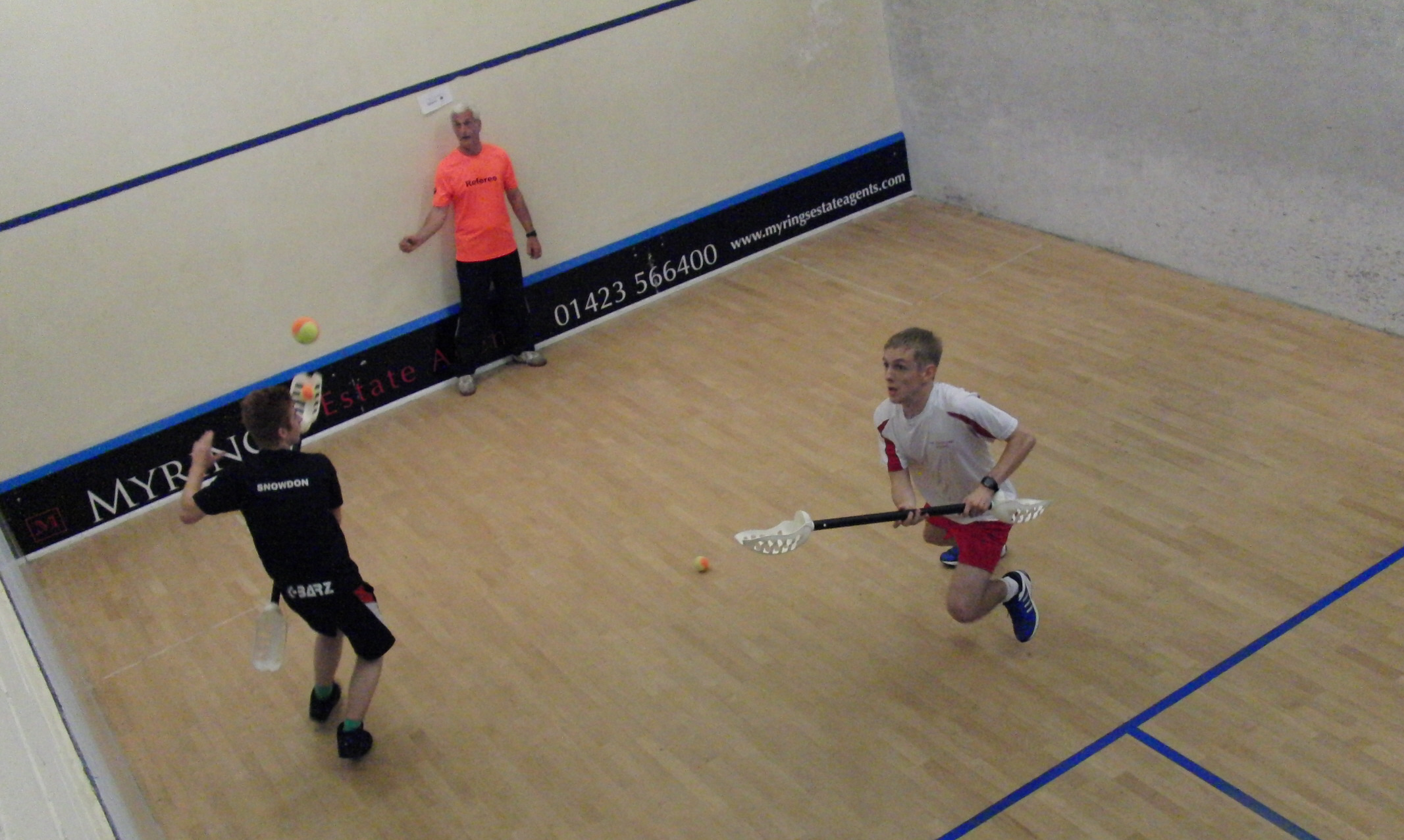 photo of V2 World Cup Final between Tom Hildreth and Scott Snowdon